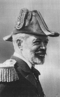 Admiral Sir Christopher Cradock